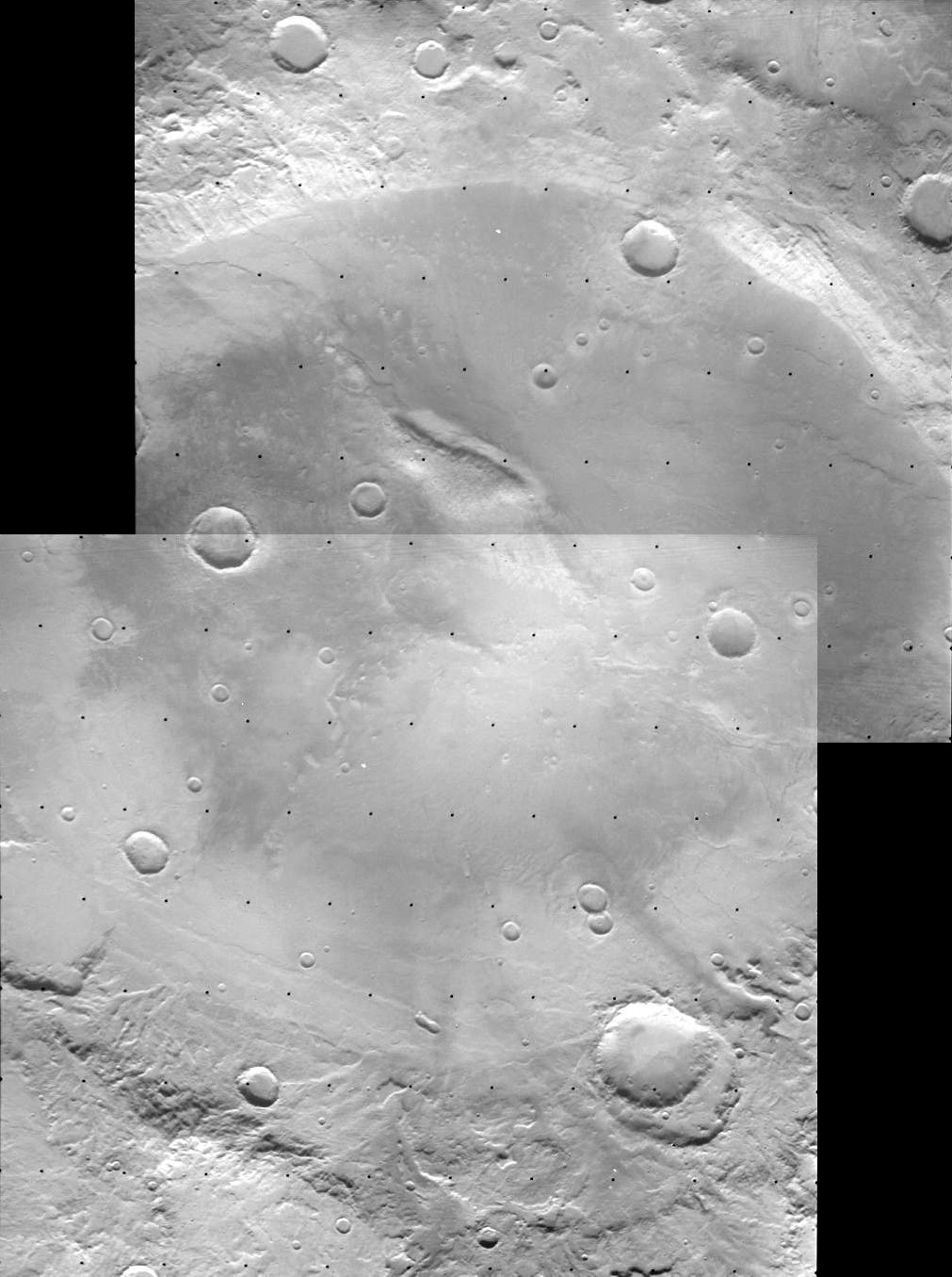 Part of Newton crater on Mars. Mosaic of two Viking 1 images from camera A (562A09 562A11). Red filter was used for these images. Resolution is about 171 m/pixel. Oblique view looking southwest. Average Emission Angle: 21.3 Average Incidence Angle: 68.9 Average Phase Angle: 84.5 Approximate Latitude: -41 Approximate Longitude: 202.2